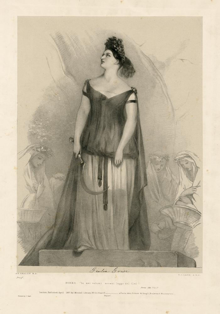 Portrait of Giulia Grisi, full-length, turned to the left, a sickle held in one hand, dressed as Norma in druidic costume of a tunic pinned at the shoulders and a cloak with wreaths of leaves on her head, druidesses in white robes and wreaths behind, a facsimile of her signature below Lithograph